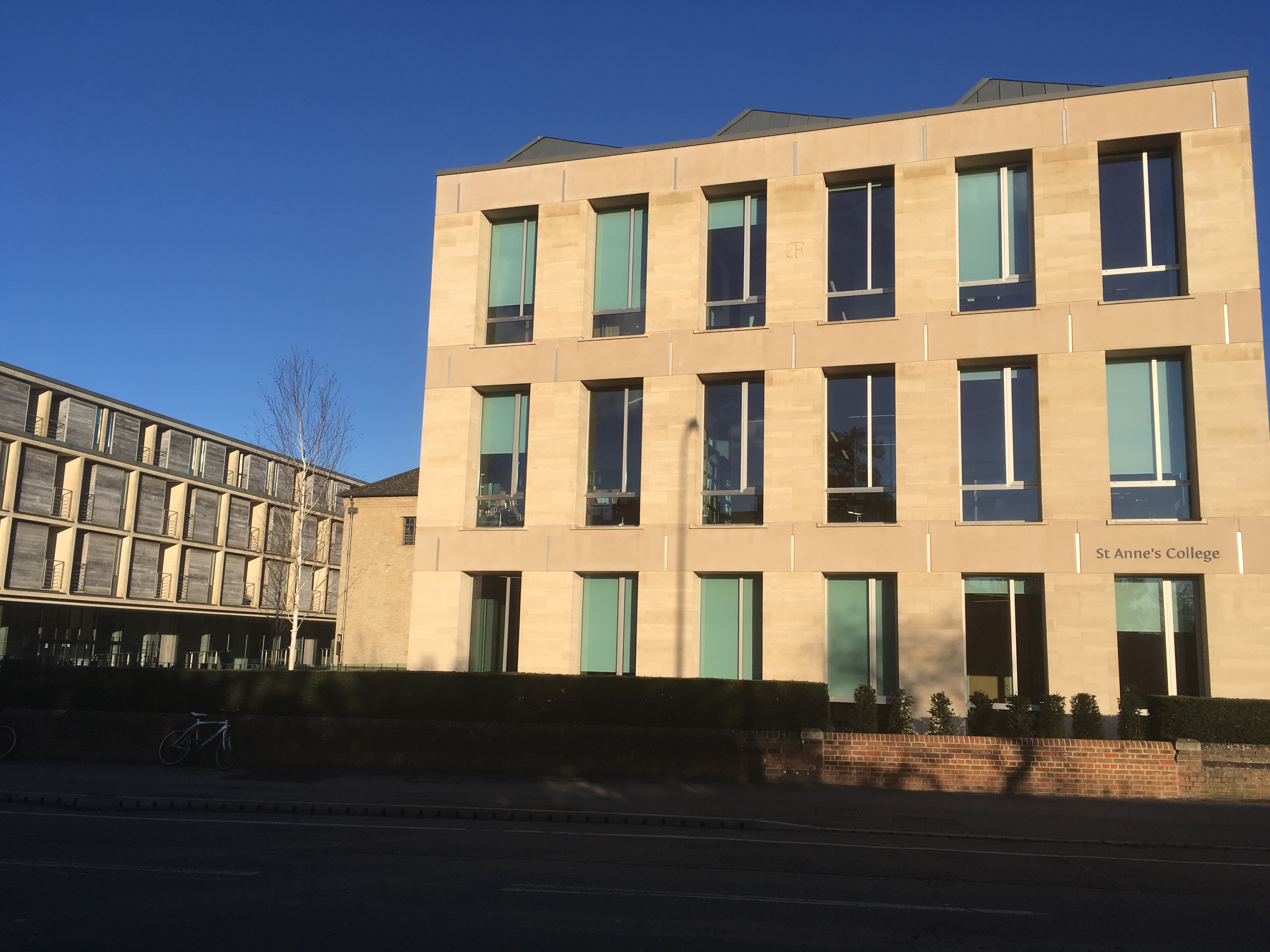 The New Library and Academic Centre, St Anne's College